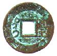 Chinese collectors arranging issues of Kang Hsi 1 Cash coins into a famous poem written in the Chien Lung period. "The following twenty coins (cast 1667) give on the reverse side the names of the mints, in Manchu and Chinese, and are arranged in a stanza of four pentameter lines, forming the rhyme after the rule of Chinese poetry: " [Schjøth] "The Chinese attach a talismanic virtue to the above coins. If genuine and placed together, they have the power of expelling evil influences and of preventing fires. Their genuineness according to popular belief can be tested by placing them, when strung together, on top of a chicken-coop: if genuine, they will prevent the cocks from crowing in the morning!" [Schjöth] Dynasty: Ch'ing (1644 - 1911 a.d.) Emperor: Sheng Tsu (1661-1722 a.d.) Reign Title: Kang Hsi (1661-1722 a.d.)